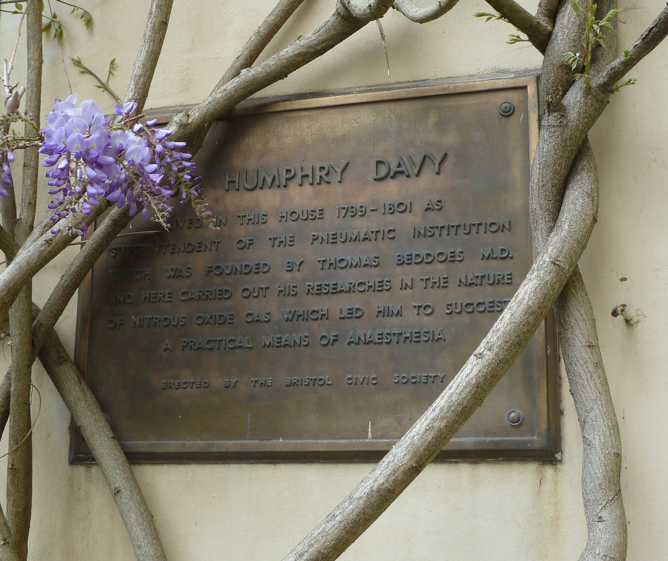 Plaque to Humphry Davy, 6 Dowry Square, Bristol